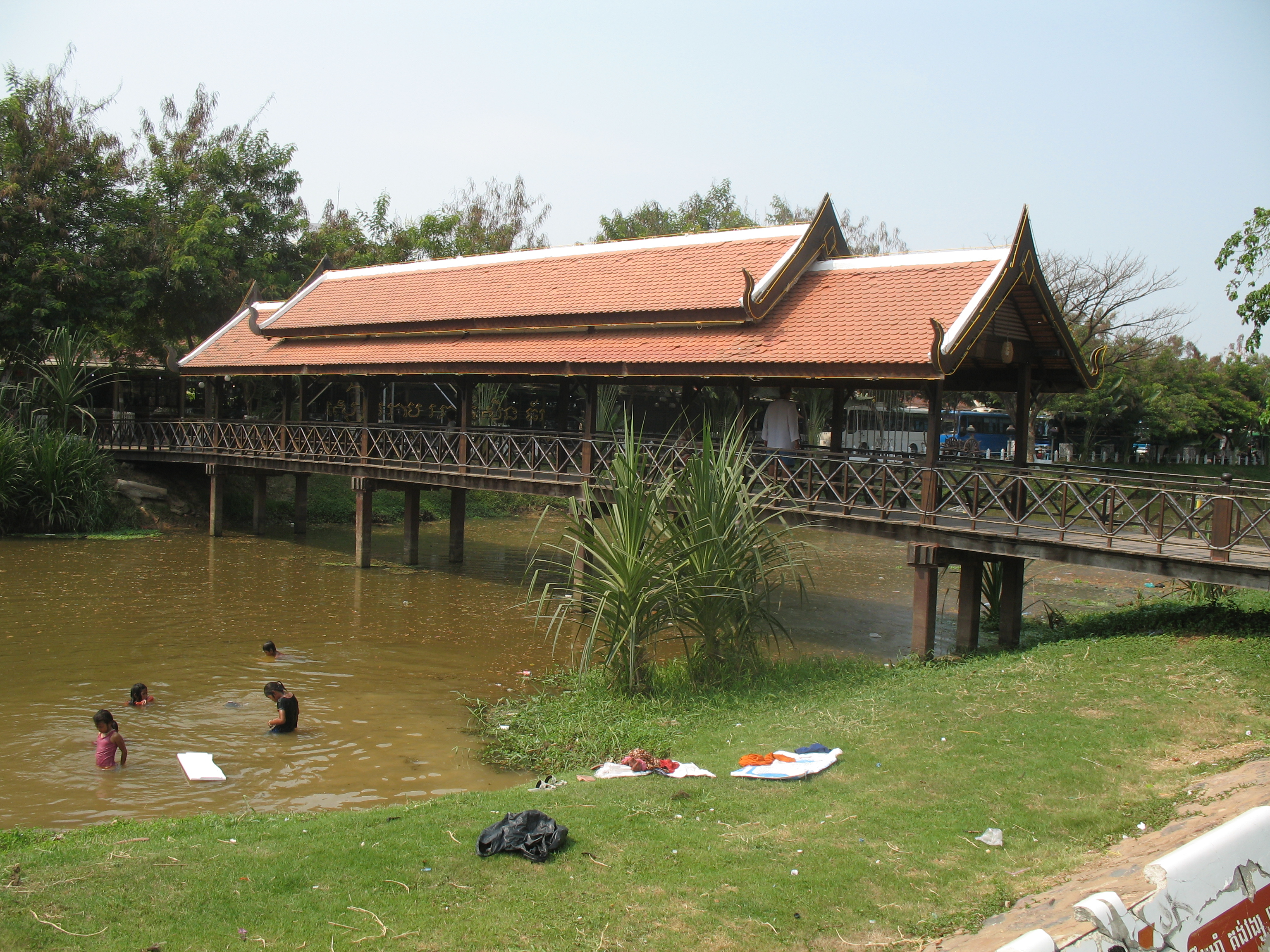 A covered pedestrian bridge over Siem Reap River, next to the Old Market in Siem Reap